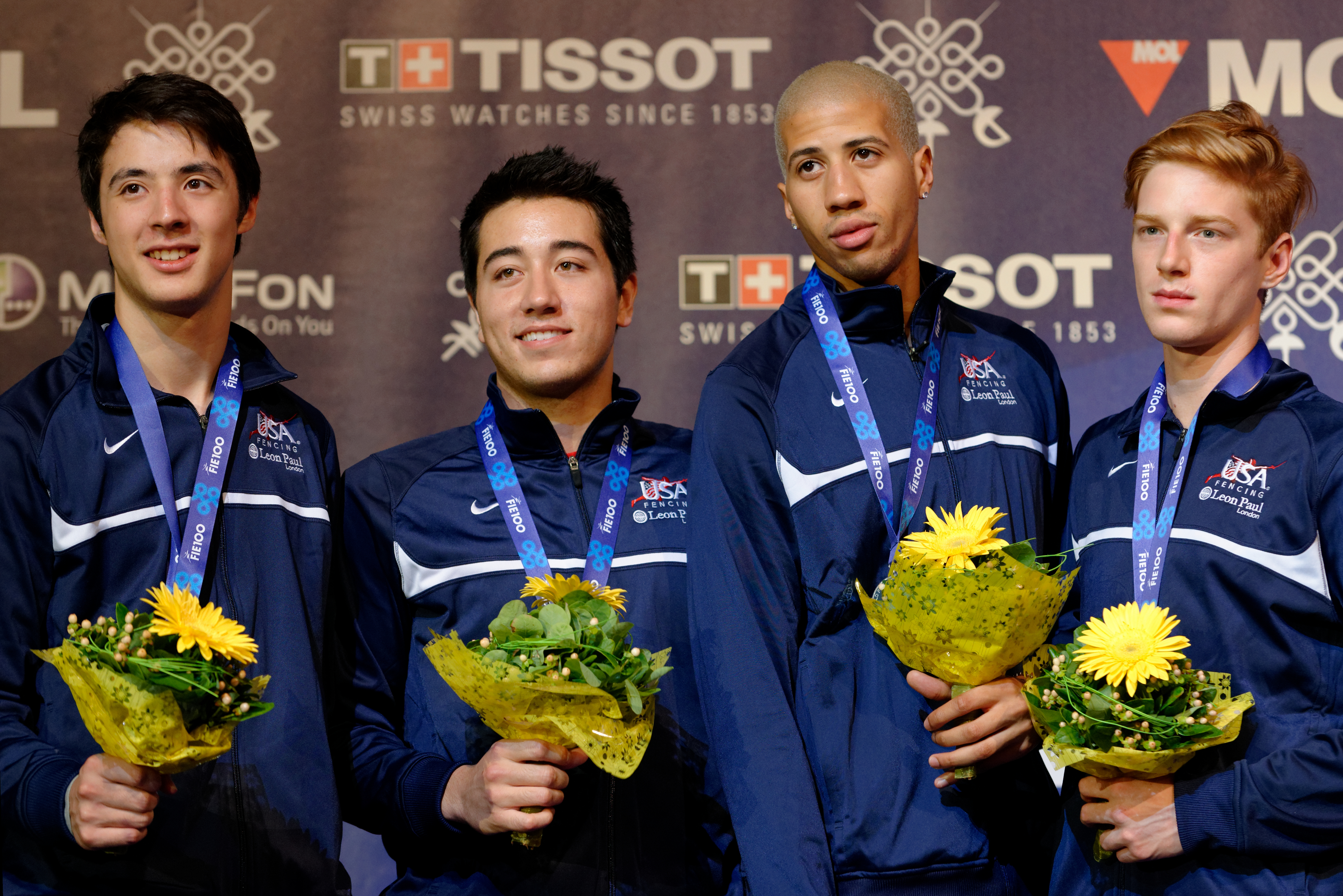 The United States' men foil team (from left to right, Alexander Massialas, Gerek Meinhardt, Miles Chamley-Watson, and Race Imboden) stand on the podium of the 2013 World Fencing Championships 2013 at Syma Hall in Budapest, 12 August 2013.